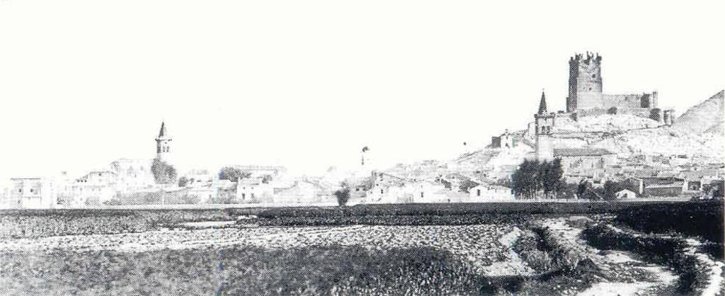 General view of Villena town in 1858